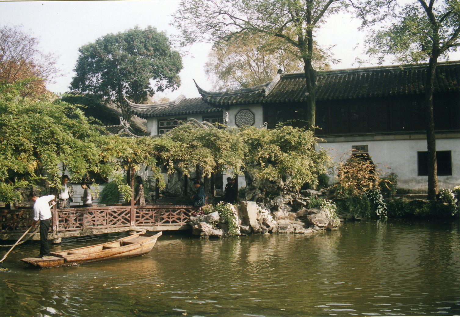 Pergola and pond in the Lingering Garden — a classical Ming Dynasty garden in Suzhou, China.